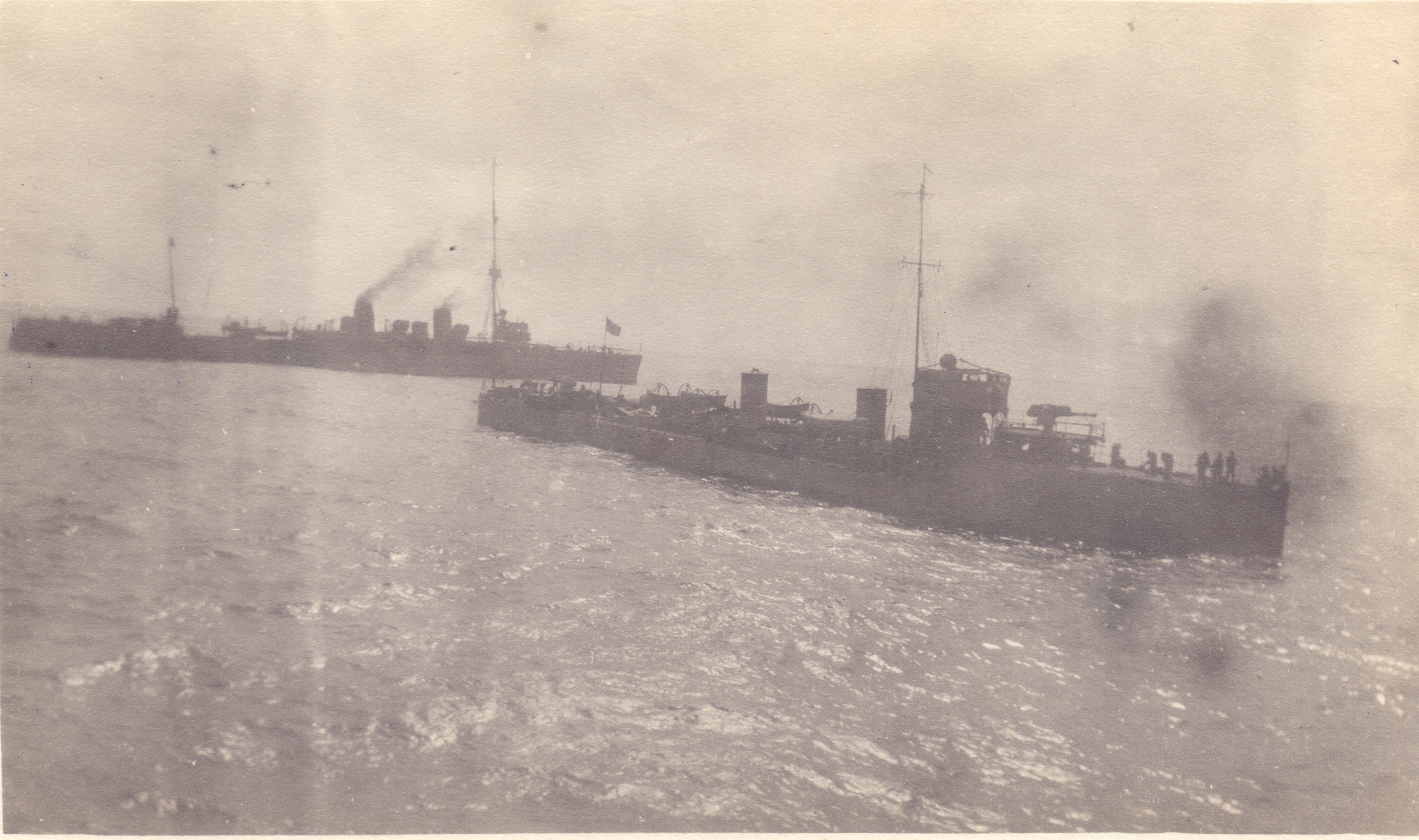 The Brazilian destroyer Piauí (front) and cruiser Bahia in Gibraltar in 1919 Arquivo liberado pela Marinha do Brasil através de projeto GLAM com Wiki Educação Brasil